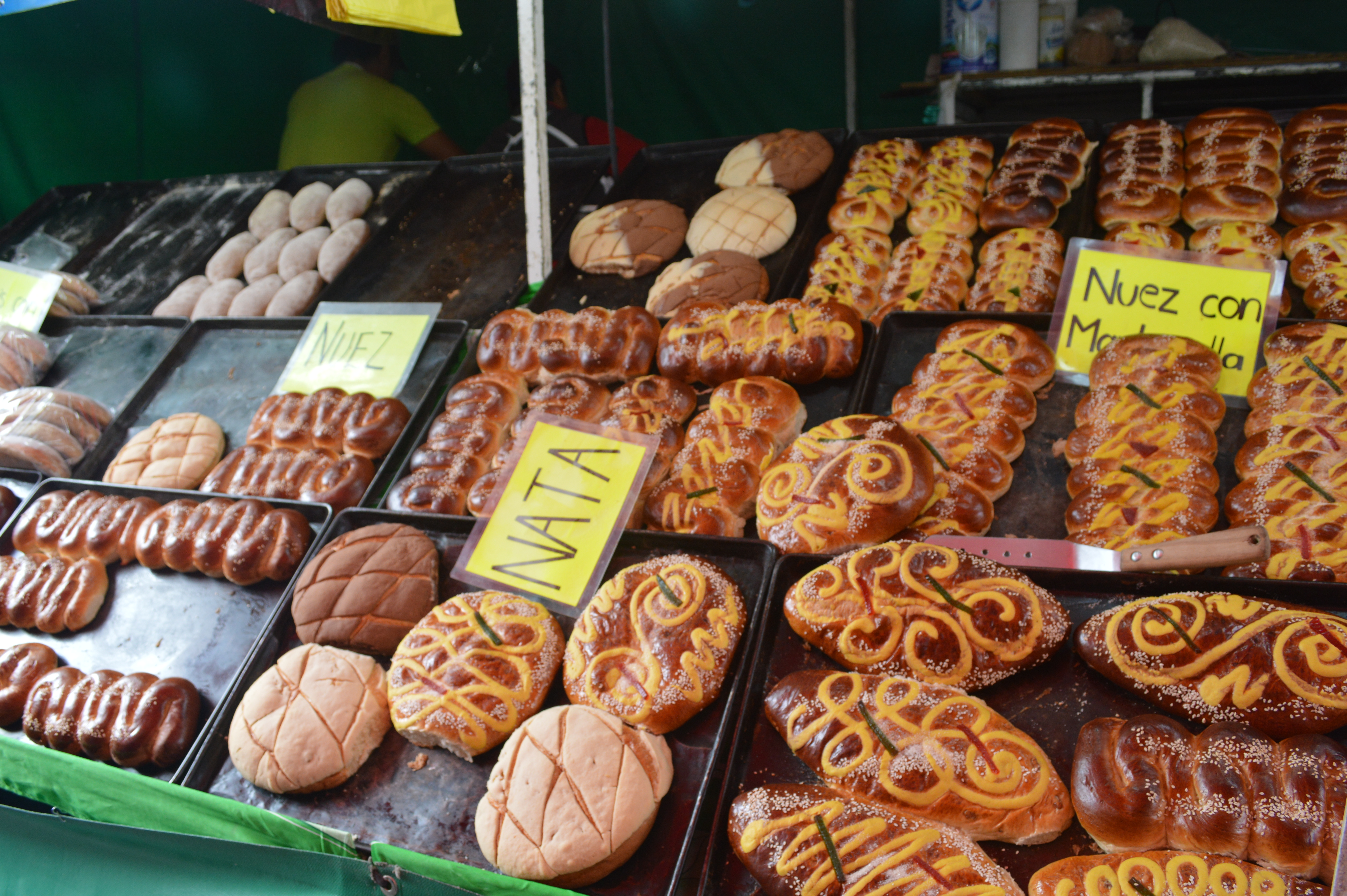 Sweet breads baked and sold a fairs in Mexico